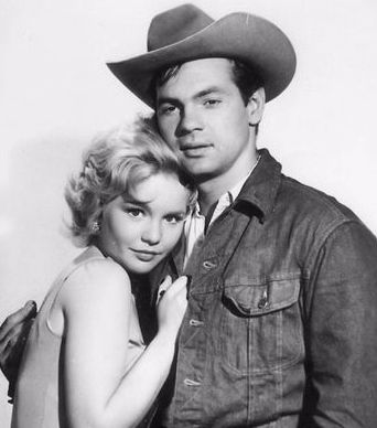 Cropped version of publicity photo of Marilyn Maxwell, Tuesday Weld and Gary Lockwood from the television program Bus Stop. The episode is "Cherie" and is taken from William Inge's play of the same name which also inspired the movie with Marilyn Monroe.